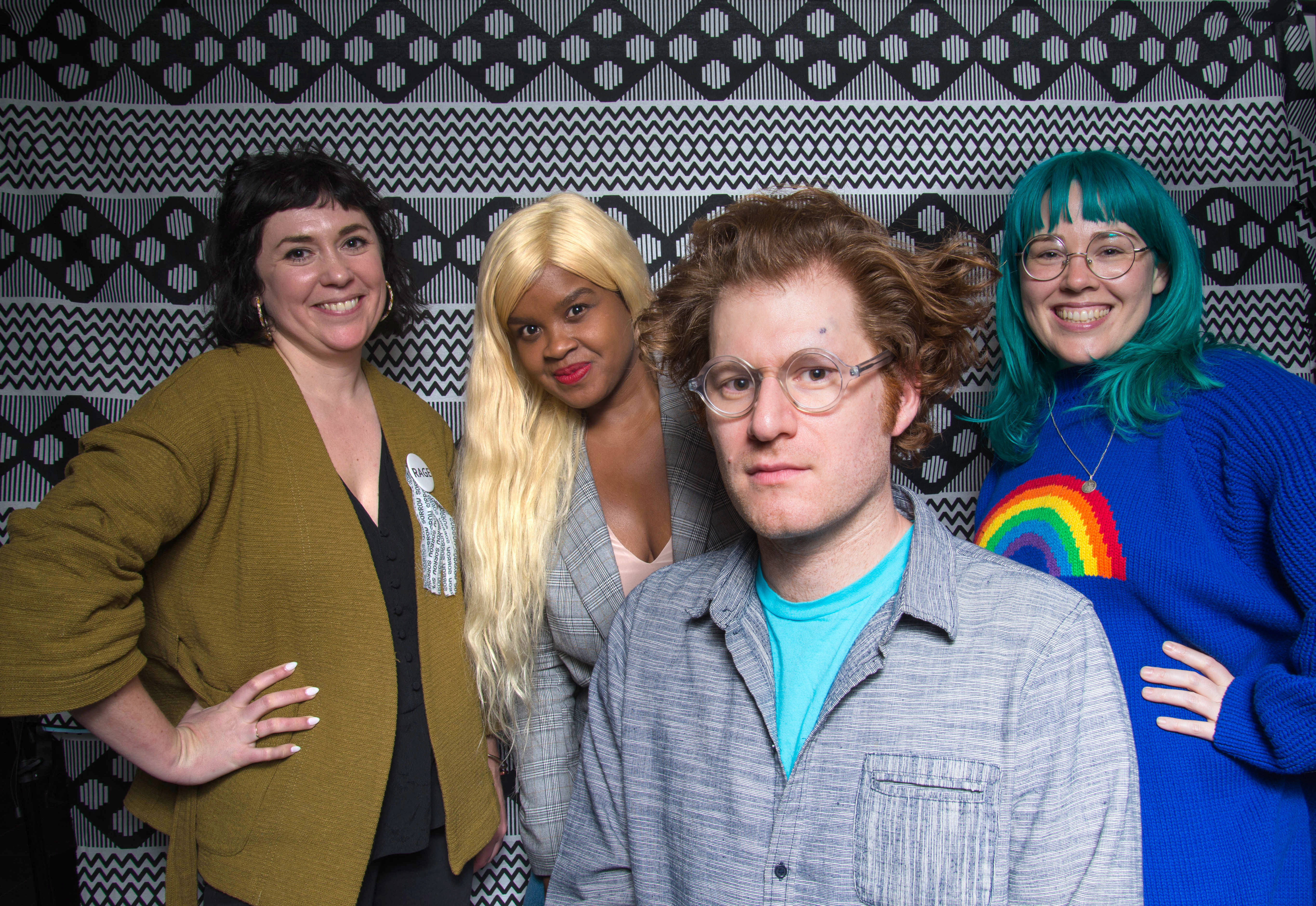 Museum of Modern Art event presented by Black Table Luncheon and Art+Feminism Wikipedia Edit-a-thon. [2019-03-02 Photo by Kay Hickman | Museum of Modern Art event presented by Black Table Luncheon and Art+Feminism Wikipedia Edit-a-thon. [2019-03-02 Photo by Kay Hickman